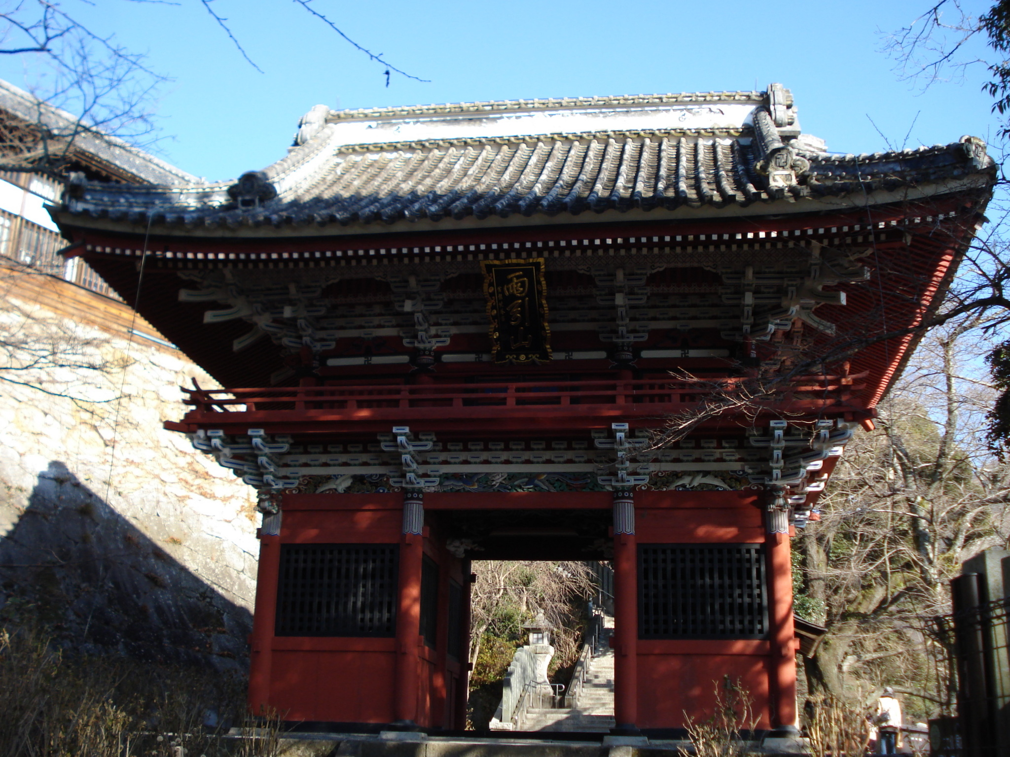 Rakuhoji Temple (Amabiki Kannon) Nio-mon gateSakuragawa-city, Ibaraki